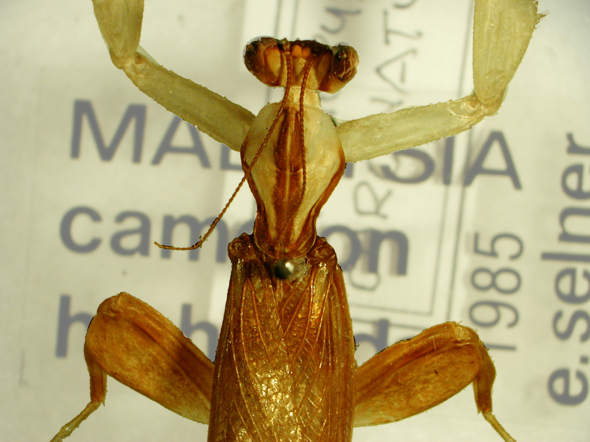 Photo of Hymenopus coronatus, Olivier, 1792 taken in the Zoologische Staatsammlung München.